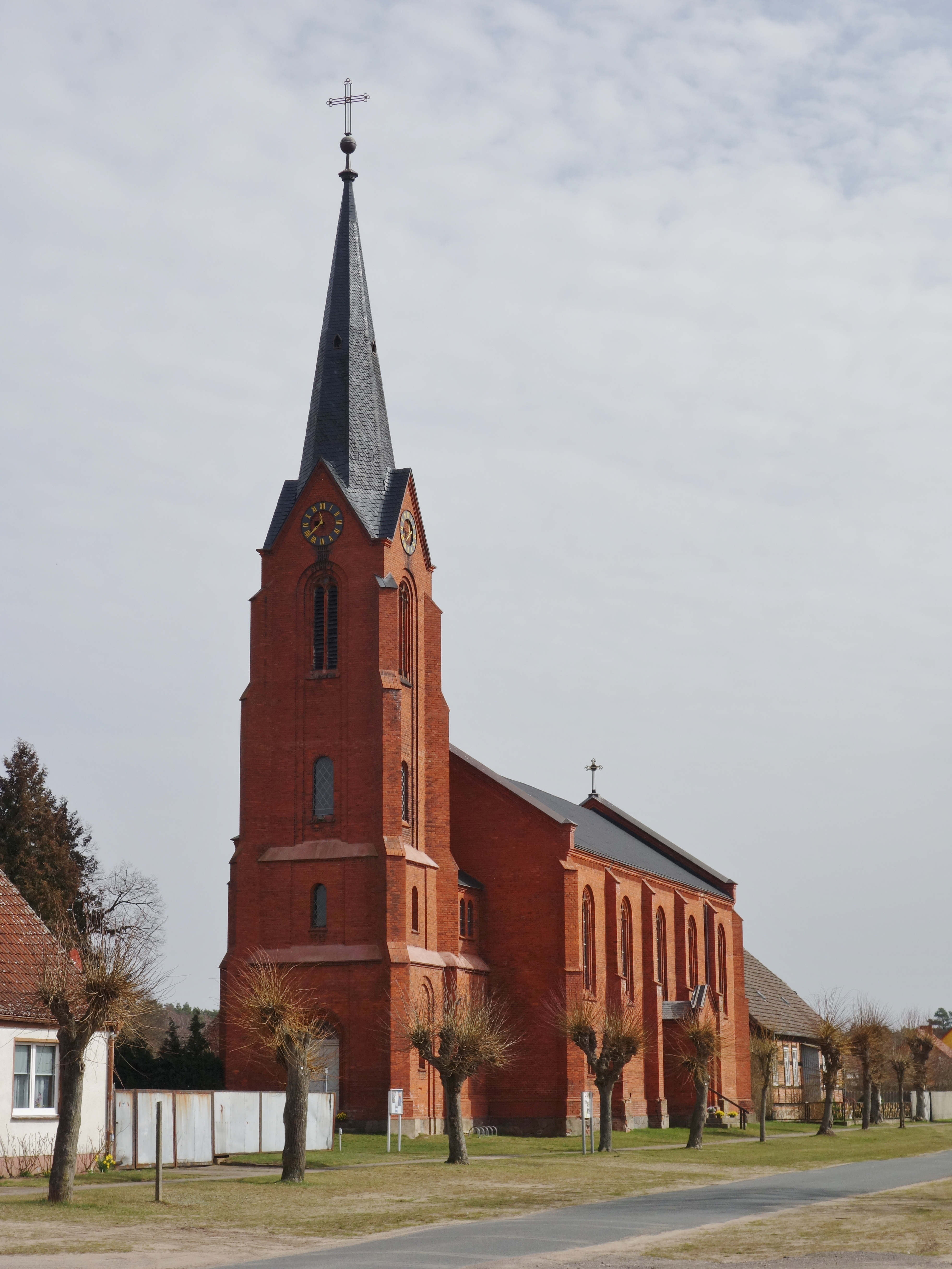 South-western view of church in Gadow, Wittstock municipality, Ostprignitz-Ruppin district, Brandenburg state, Germany